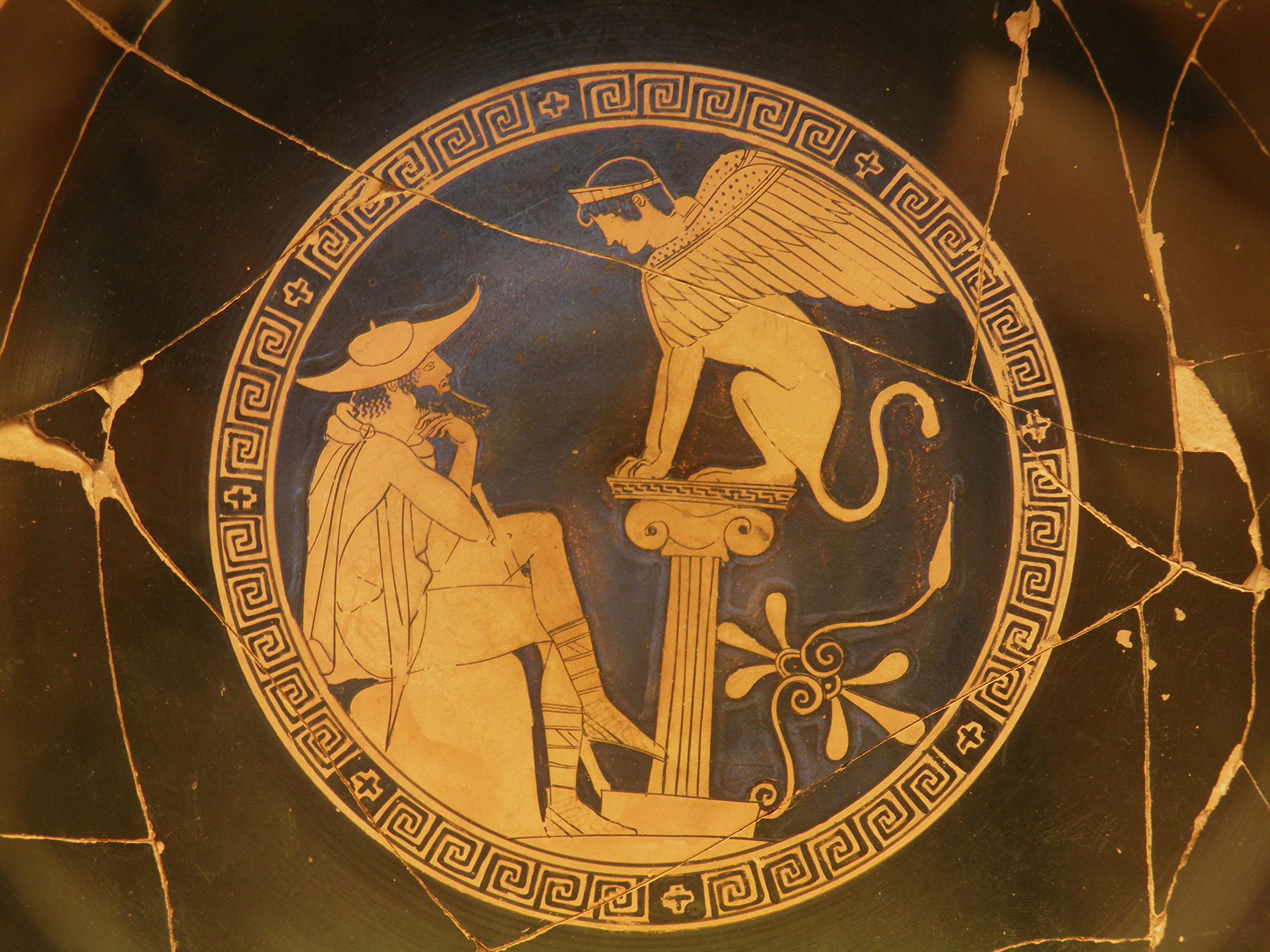 Inv. no. 16541 Oedipus seated on a rock ponders the riddle of the Sphinx. He is dressed in traveller's cape and hat. The crowned Sphinx is seated on a plinth. To rescue the people of Thebes from the monster's terror, Oedipus had to answer its riddle.